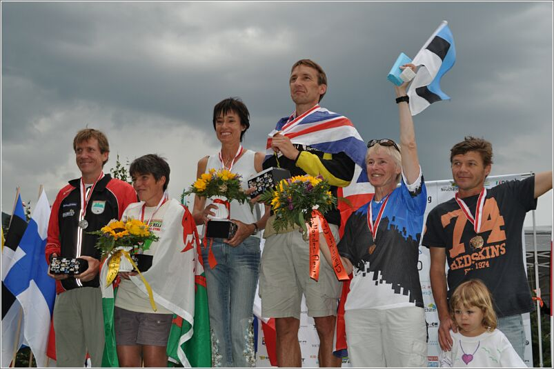 World Master Orienteering Championships 2011. Sprint final. Prize giving ceremony